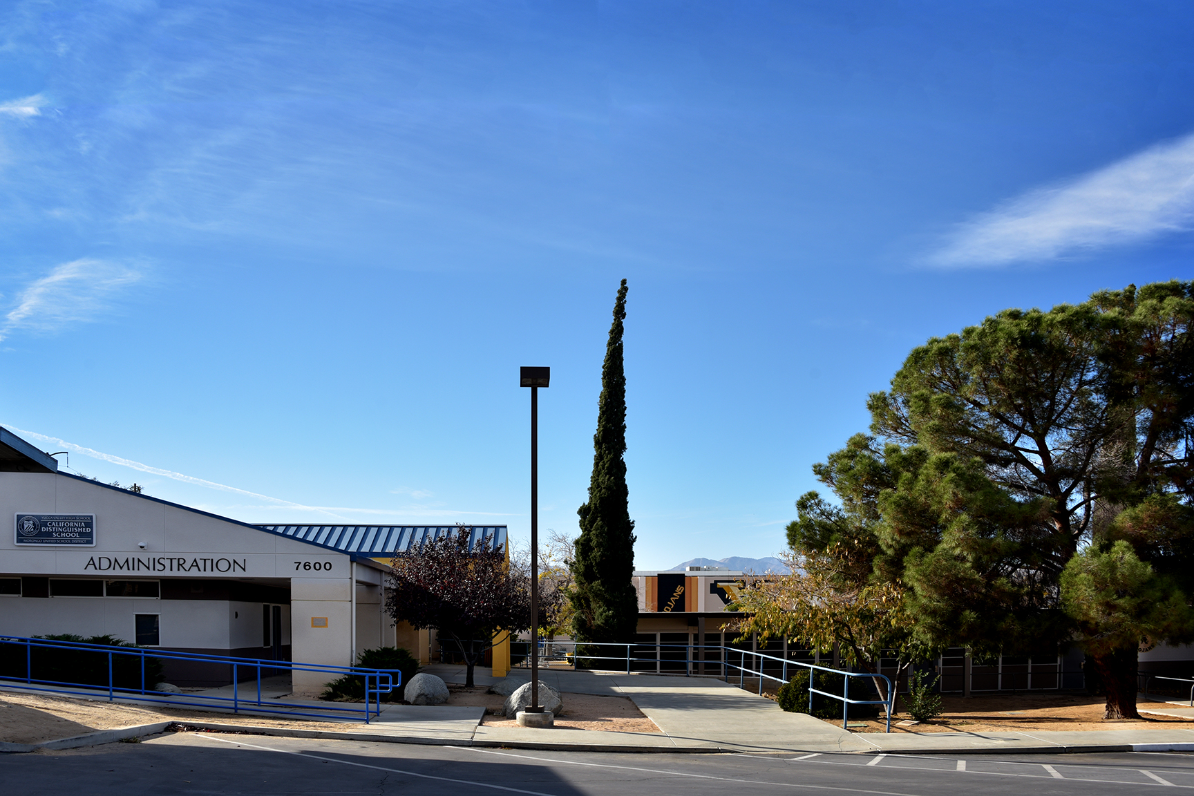 Yucca Valley High School, Yucca Valley California on December 3, 2017 - Photo by Glenn Francis of